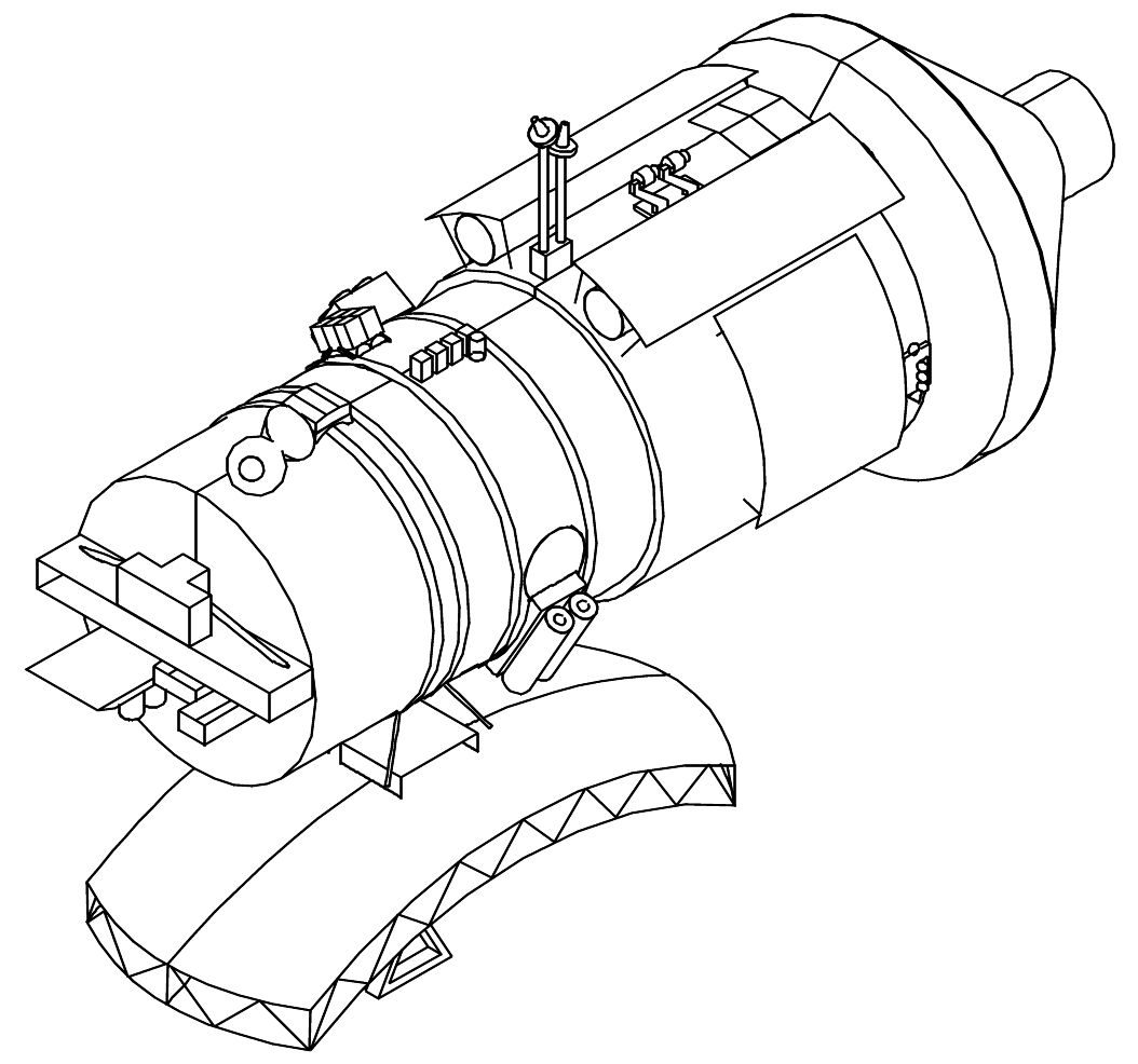 The Priroda module, launched on April 23, 1996, was the last permanent module added to the Mir complex.